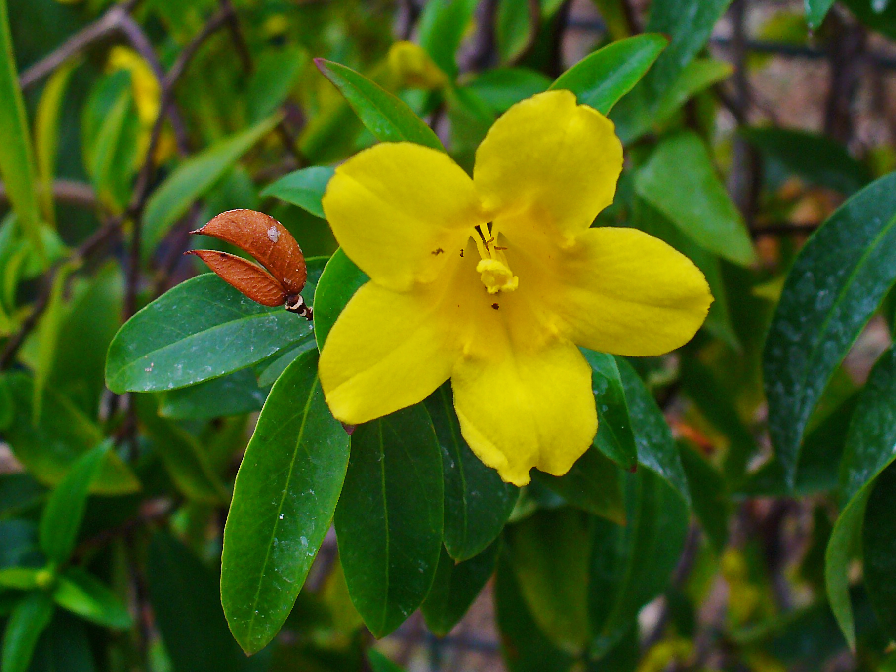 Gelsemium sempervirens, Gelsemiaceae, Yellow Jessamine, Carolina Jasmine, Evening Trumpetflower, woodbine, flower and fruits. The fresh rootstock is used in homeopathy as remedy: Gelsemium (Gels.)